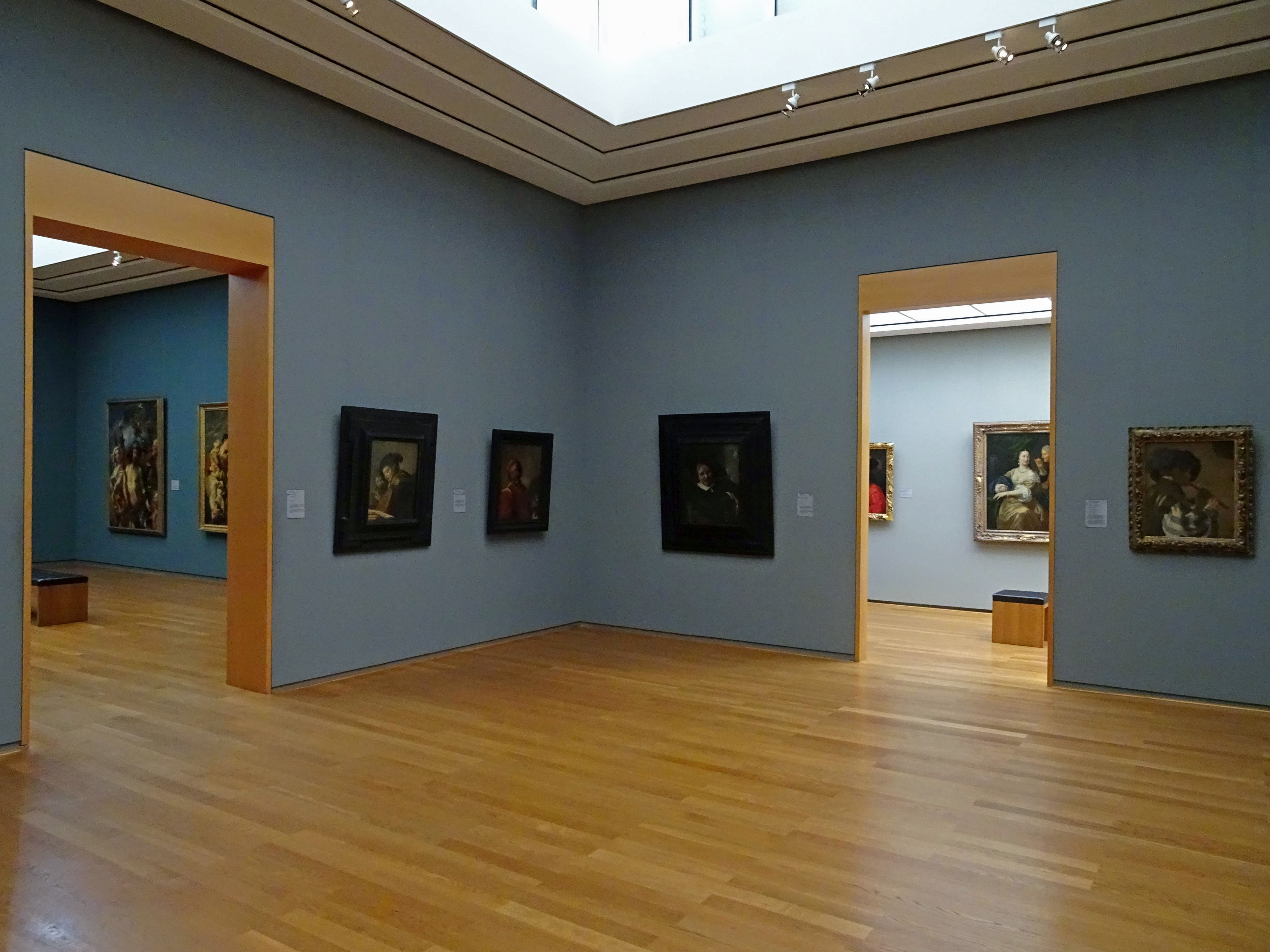 Blick in die Gemäldegalerie Alte Meister